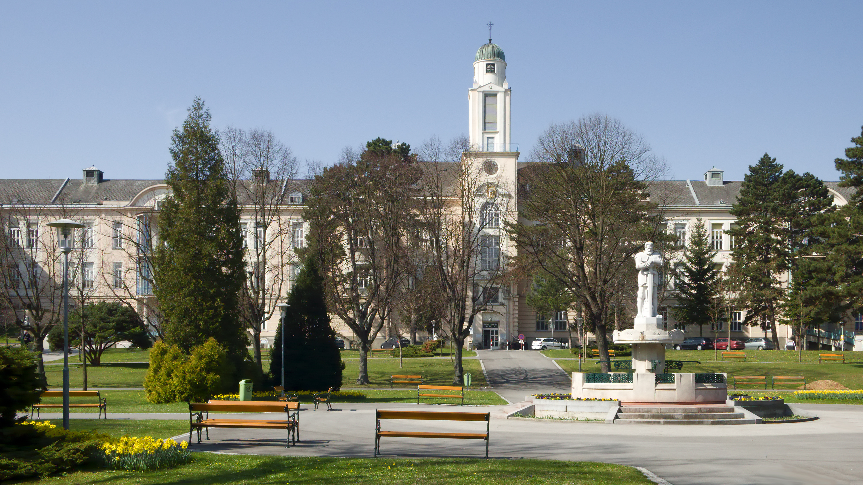 Hospital Krankenhaus Lainz in Vienna Hietzing